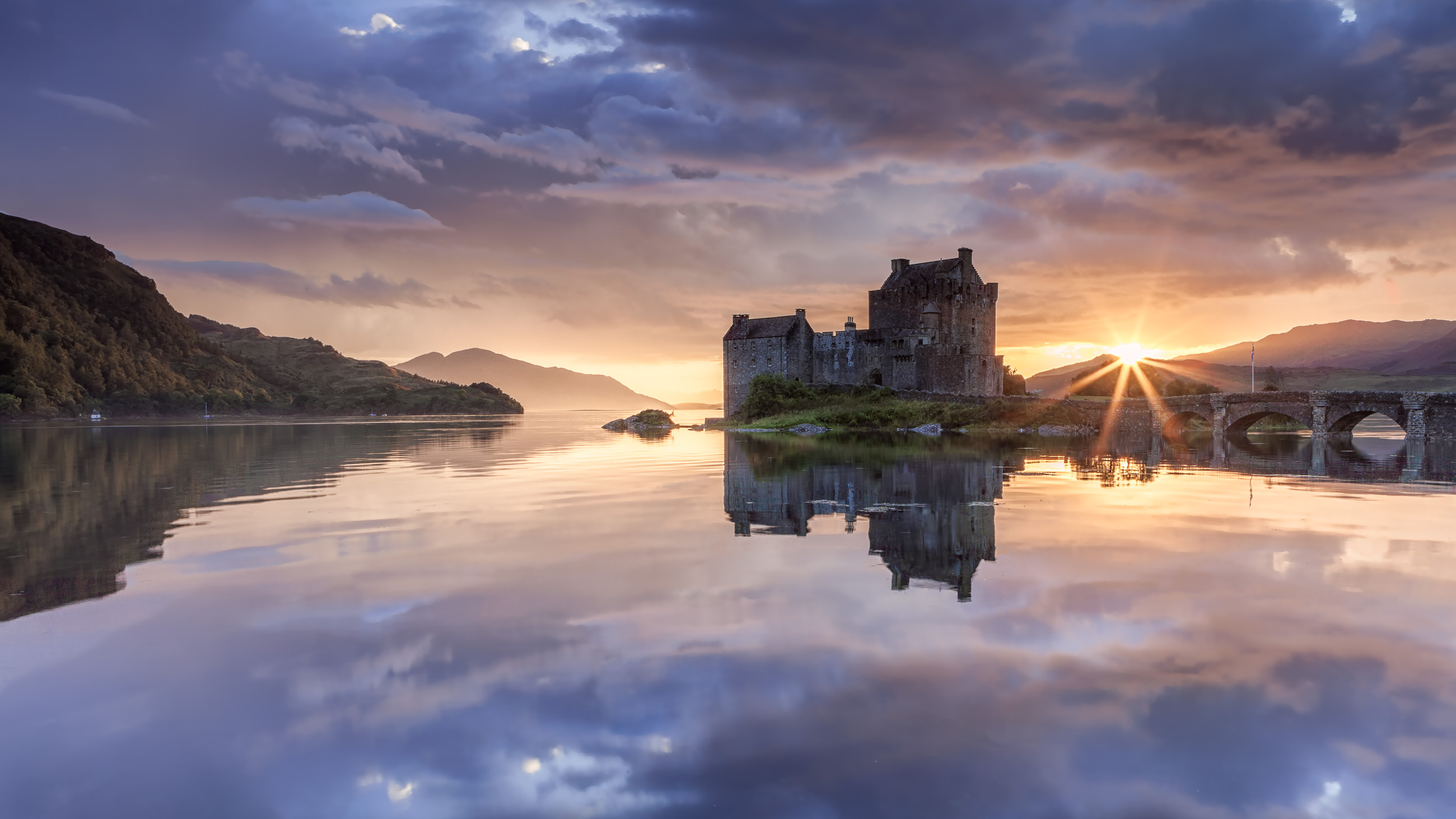 Eilean Donan Castle, Scotland Wikidata has entry Q20816698 with data related to this item.